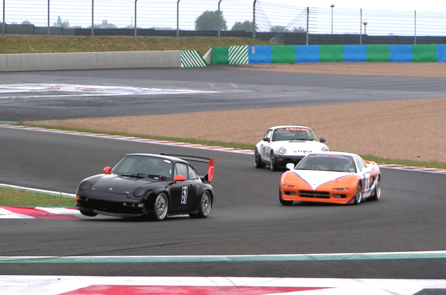 New Complexe du Lycee at Circuit Nevers Magny-Cours